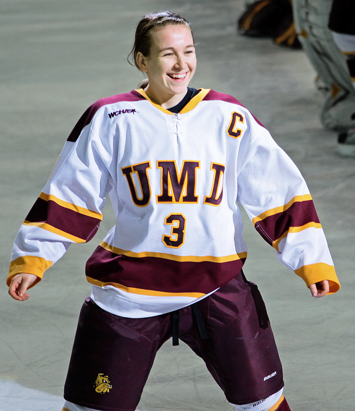 UMD Bulldogs defenseman Jocelyne Larocque